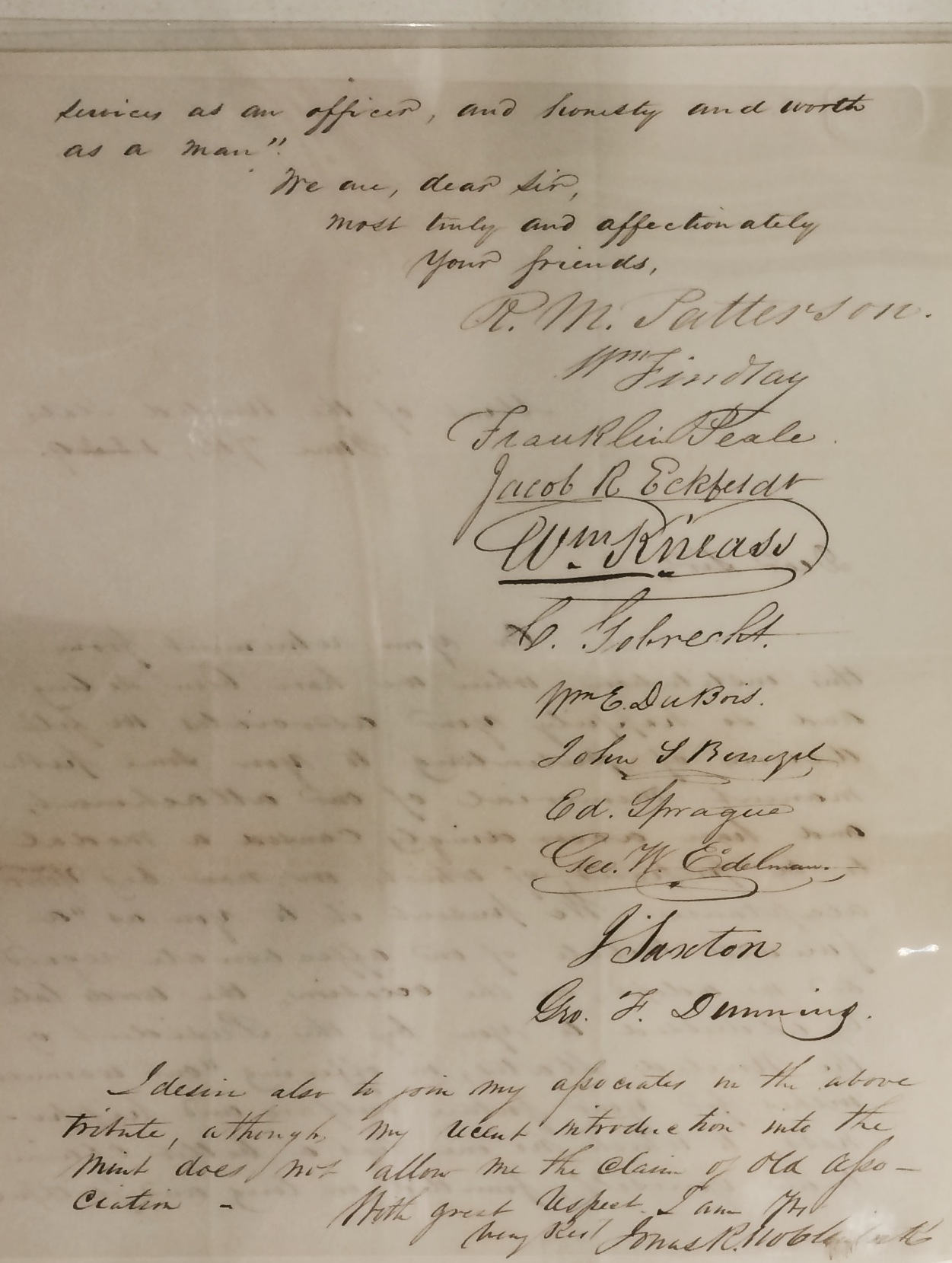 Signature page from letter presented to Chief Coiner Adam Eckfeldt on his retirement, 1839. Among the signatories are Chief Coiner Franklin Peale and Second Engraver Christian Gobrecht.